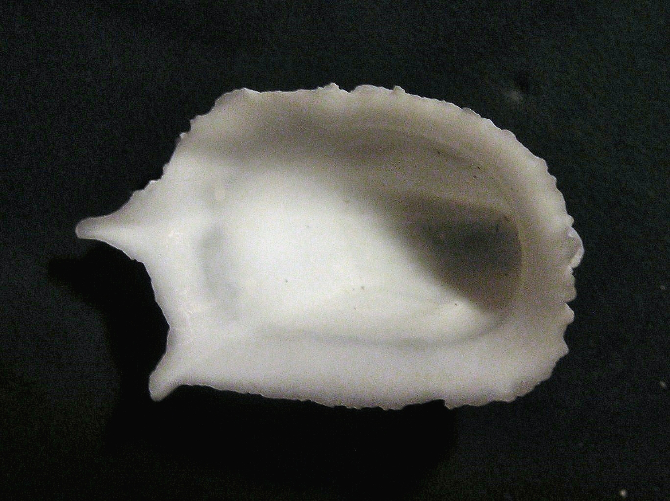 Amathina tricarinata (Linnaeus, 1767) , a small sea snail in the family Amathinidae; Philippines